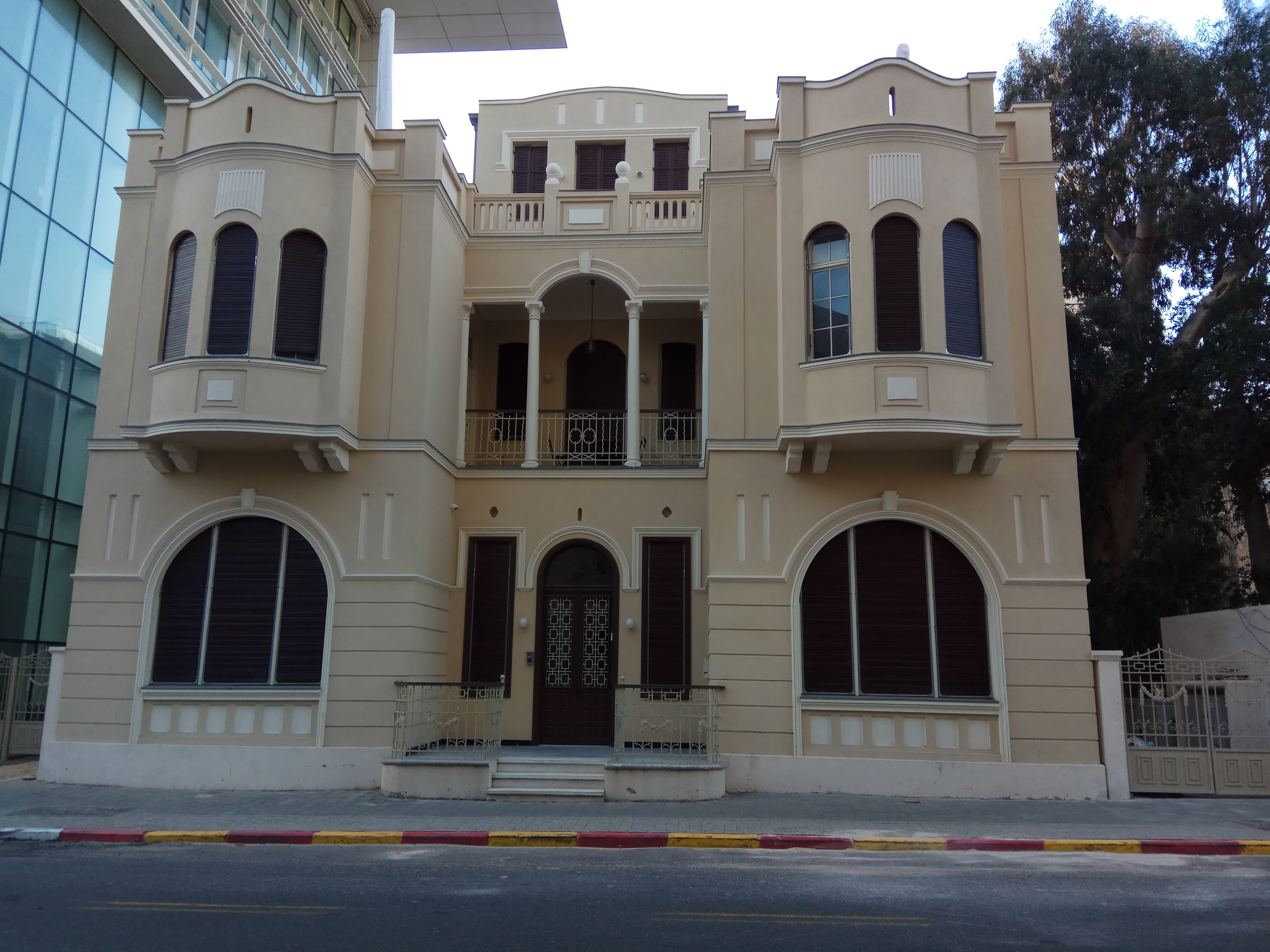 Beit Litvinsky in Tel Aviv